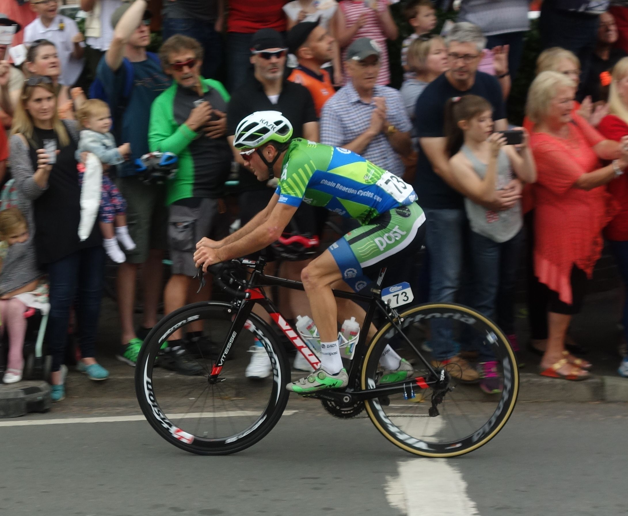 Emiel Wastyn competing in the Tour of Britain in 2016. Here he's near the start of Stage 3 in Alsager, Cheshire, attempting to bridge the gap from the peloton to the lead breakaway.